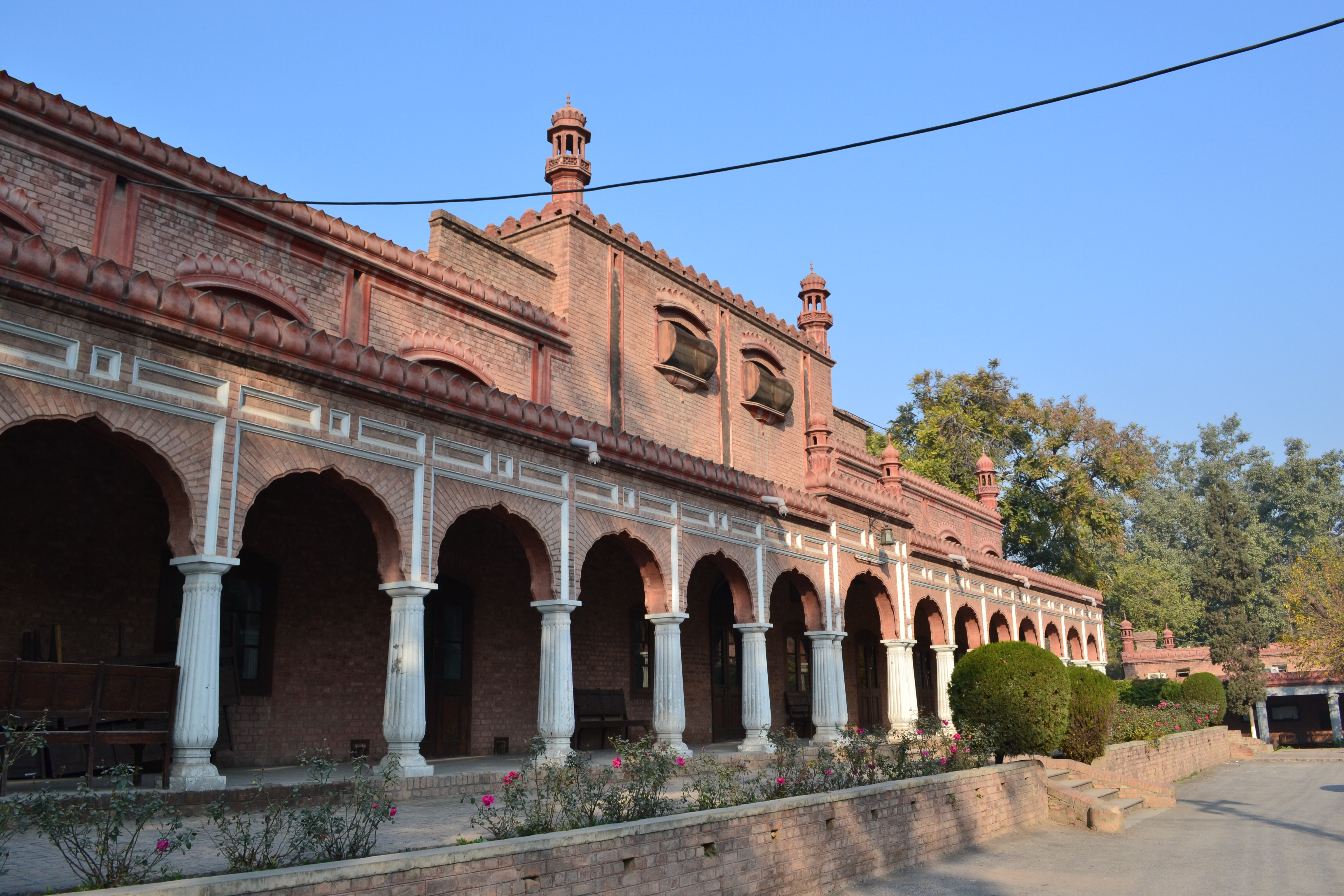 Edwardes College Side View